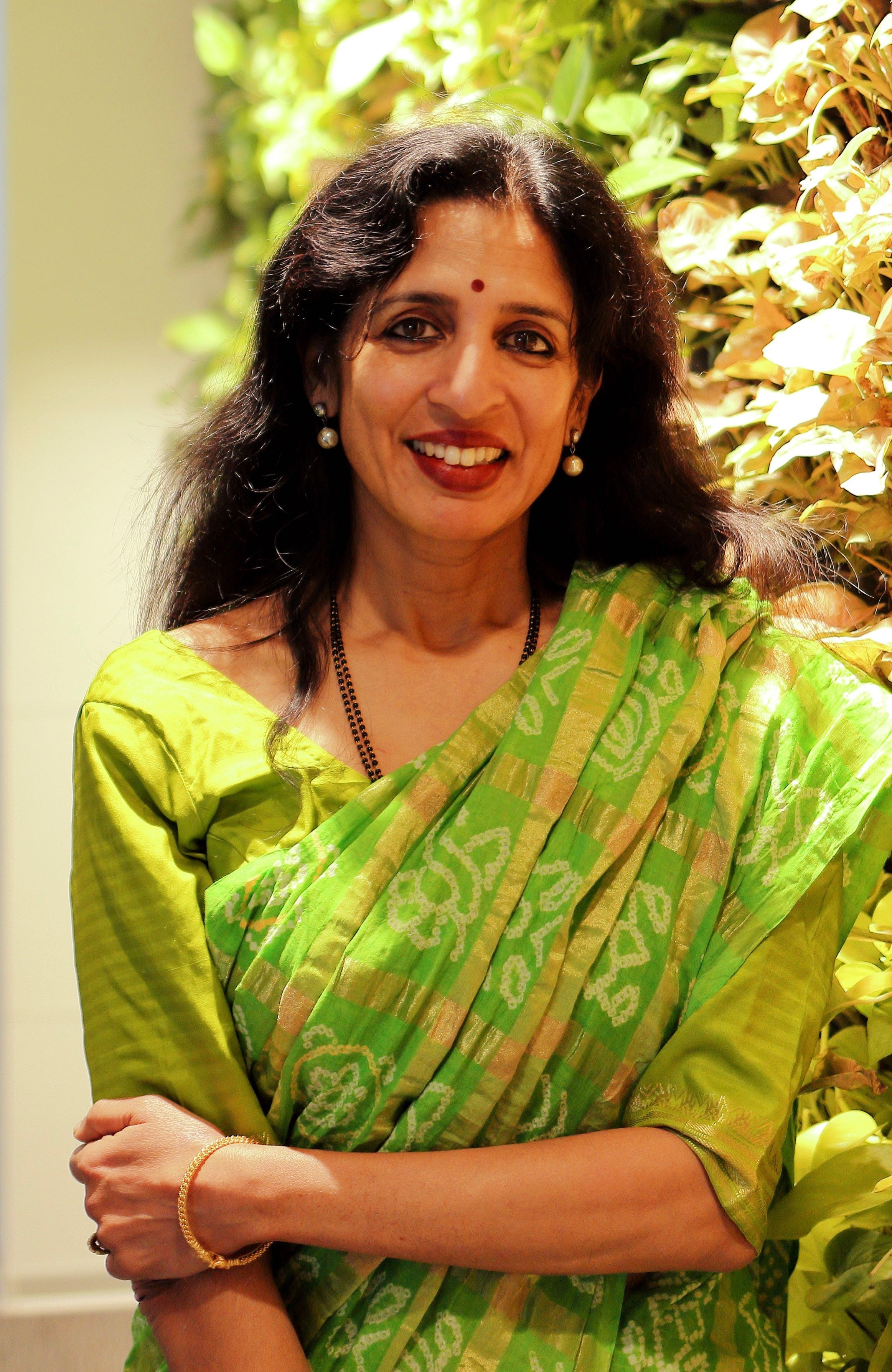 Jayshree Ullal Arista CEO at Bangalore Office Opening